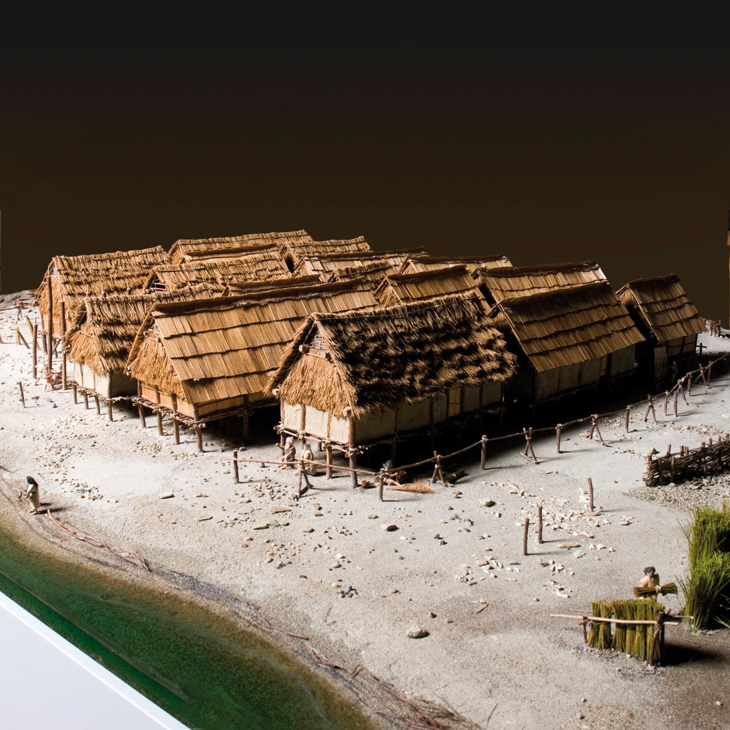 Scale model of the lacustrine village of Cortaillod-Est (Neuchâtel) at the time of its fundation (1000 B.C. ca). Picture by Y. André / Laténium.